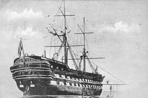 Picture of the Swedish ship of the line HMS Stockholm circa 1893.